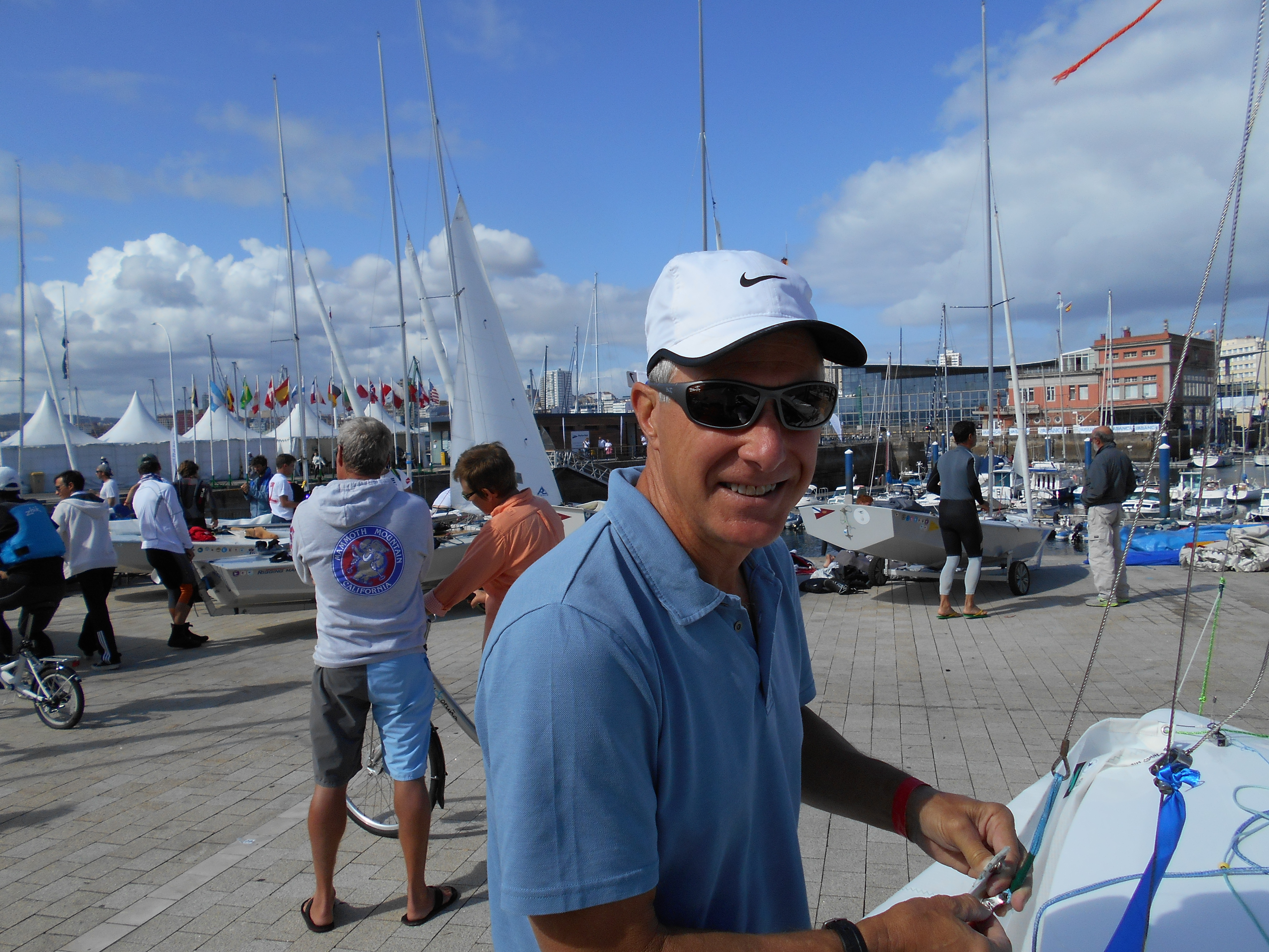 Peter Commette at La Coruña (Spain) for the Snipe Worlds in 2017